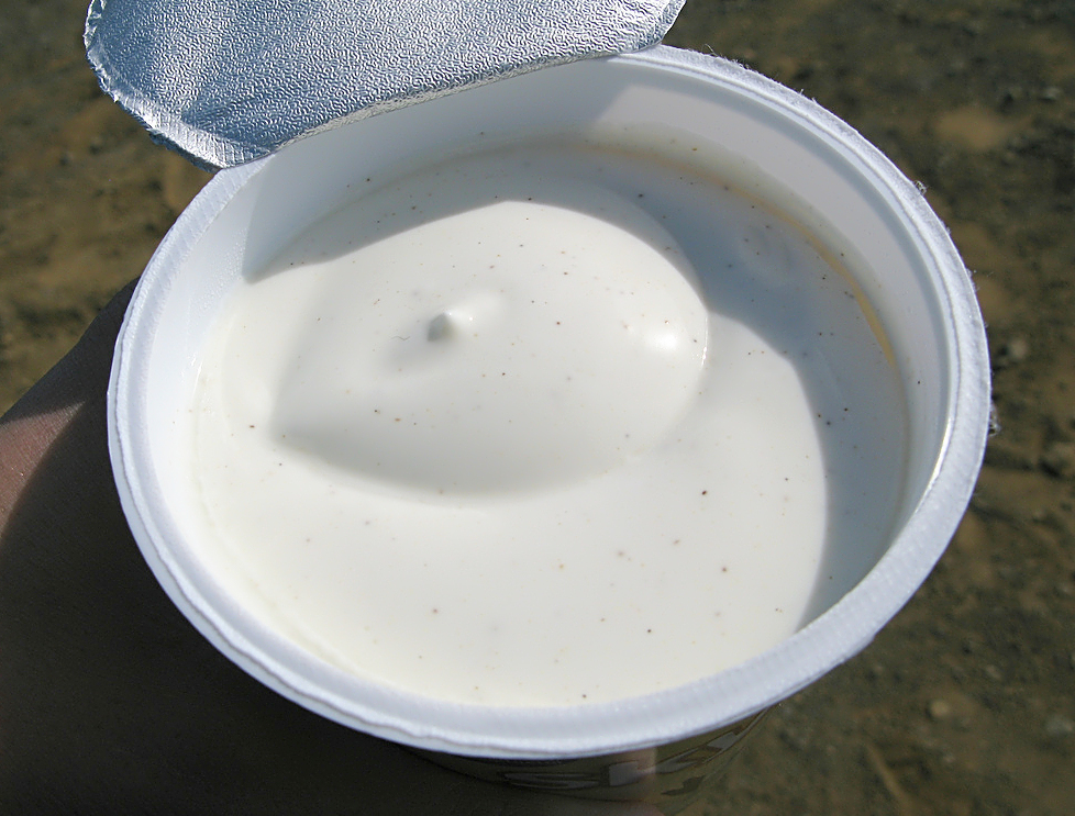 Vanilla skyr (skyr.is með vanillu)